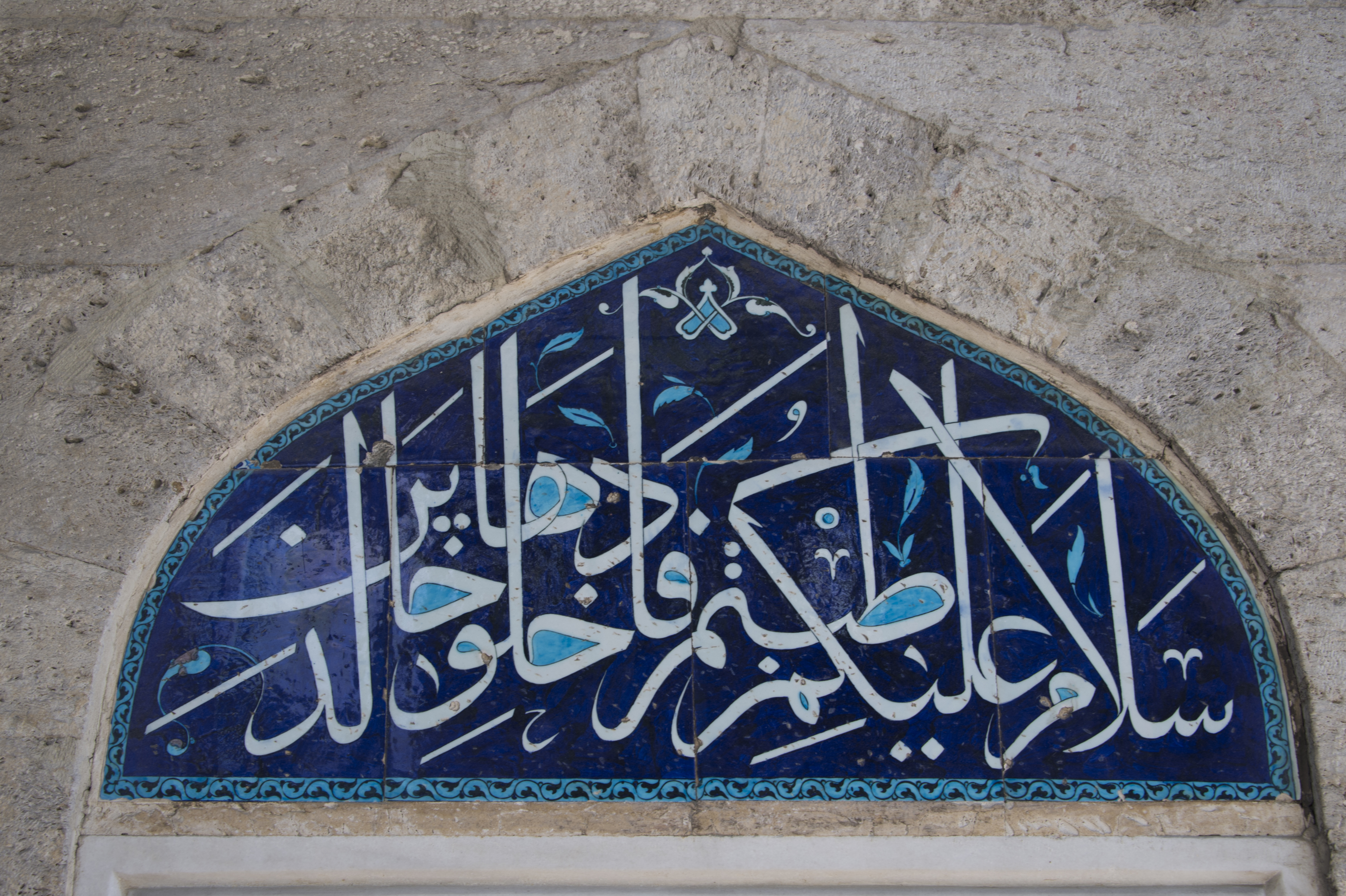 Above the windows of this mosque, both inside and outside, are calligraphic decorations, some in tiles, some painted.